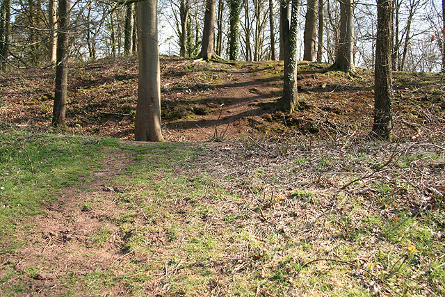 Broadclyst: hillfort earthworks Evidence for the ramparts of the iron age hillfort remains. It dates from the period 400 BC to 43 AD and was built in two phases. Legend has it that a dragon protected treasure in wells at this fort and a second encampment at nearby Cadbury: the treasure served as offerings to the gods to ensure good harvests. As the dragon was always at the other hilltop its existence could never be proved or disproved. Treasure hunters were apparently deterred from plundering the wells for fear of winged attack. Trees on Dolbury were originally planted by John Veitch, a Scot who landscaped the park for the Acland family in the eighteenth century and later became agent for the estate. Killerton Clump is recognisable today driving up the M5 from Exeter